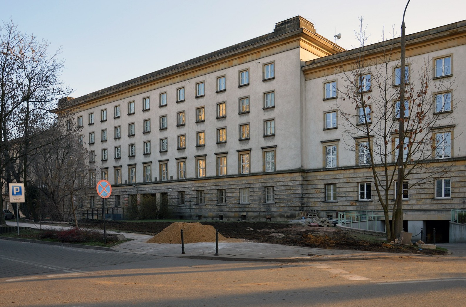 Part of the city council building in Radom, Poland